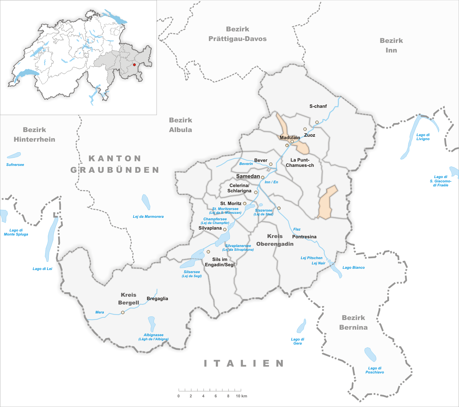 Municipality Madulain